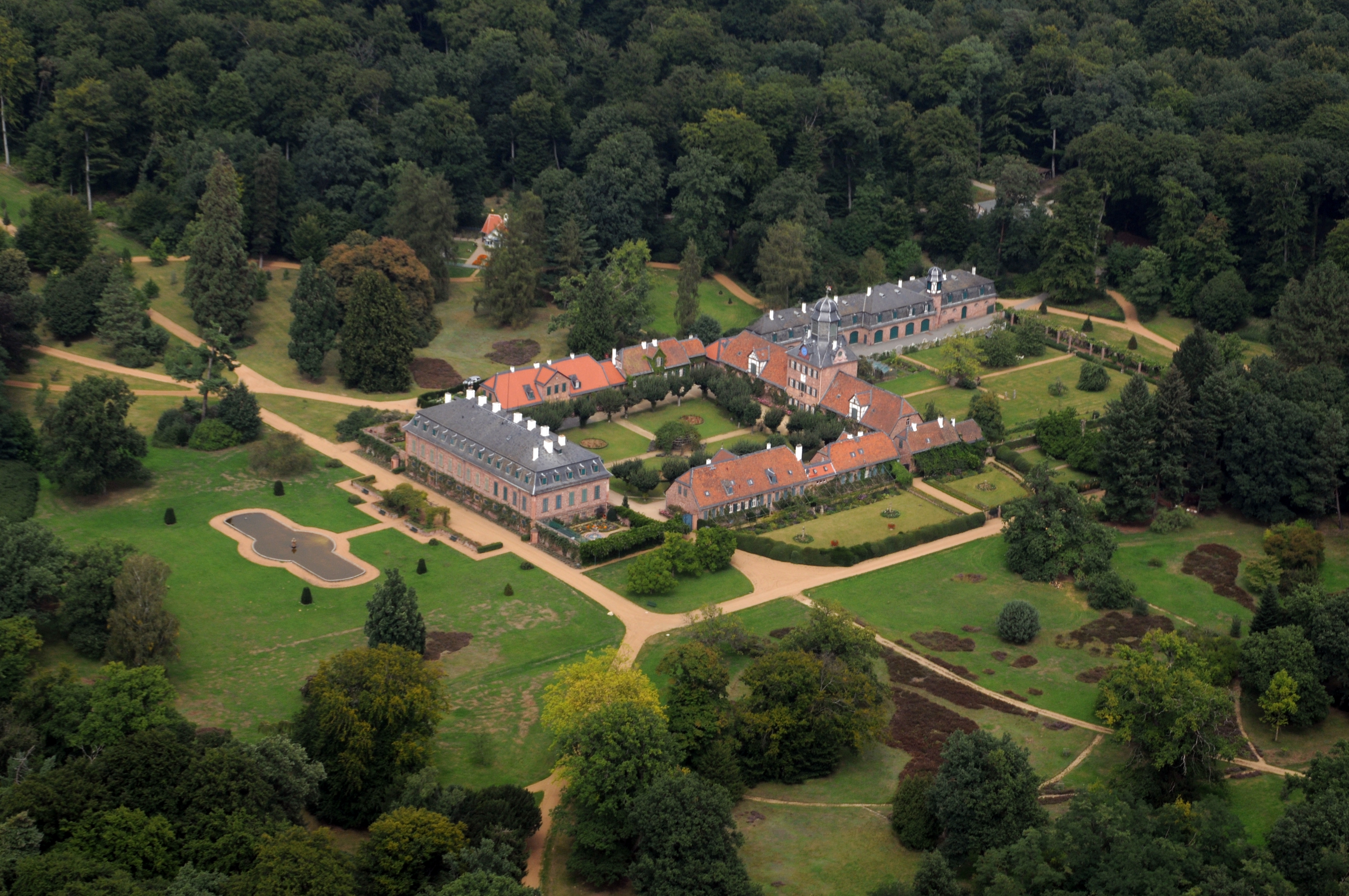 Schloss Wolfsgarten, Langen, Hesse, Germany, aerial photograph